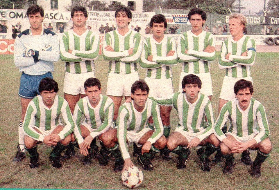 Sportivo Estudiantes 1989-90 football team that made a good campaing at Torneo del Interior. Players: Gerardo Quiroga, Miguel Simioli, Jorge Simioli, Enrique Becerra, Mario Bazán, Carlos Daniel Sosa Falcioni, Raúl Bautista, Mario Saccone, Ricardo Gómez, Darío Caballaro.